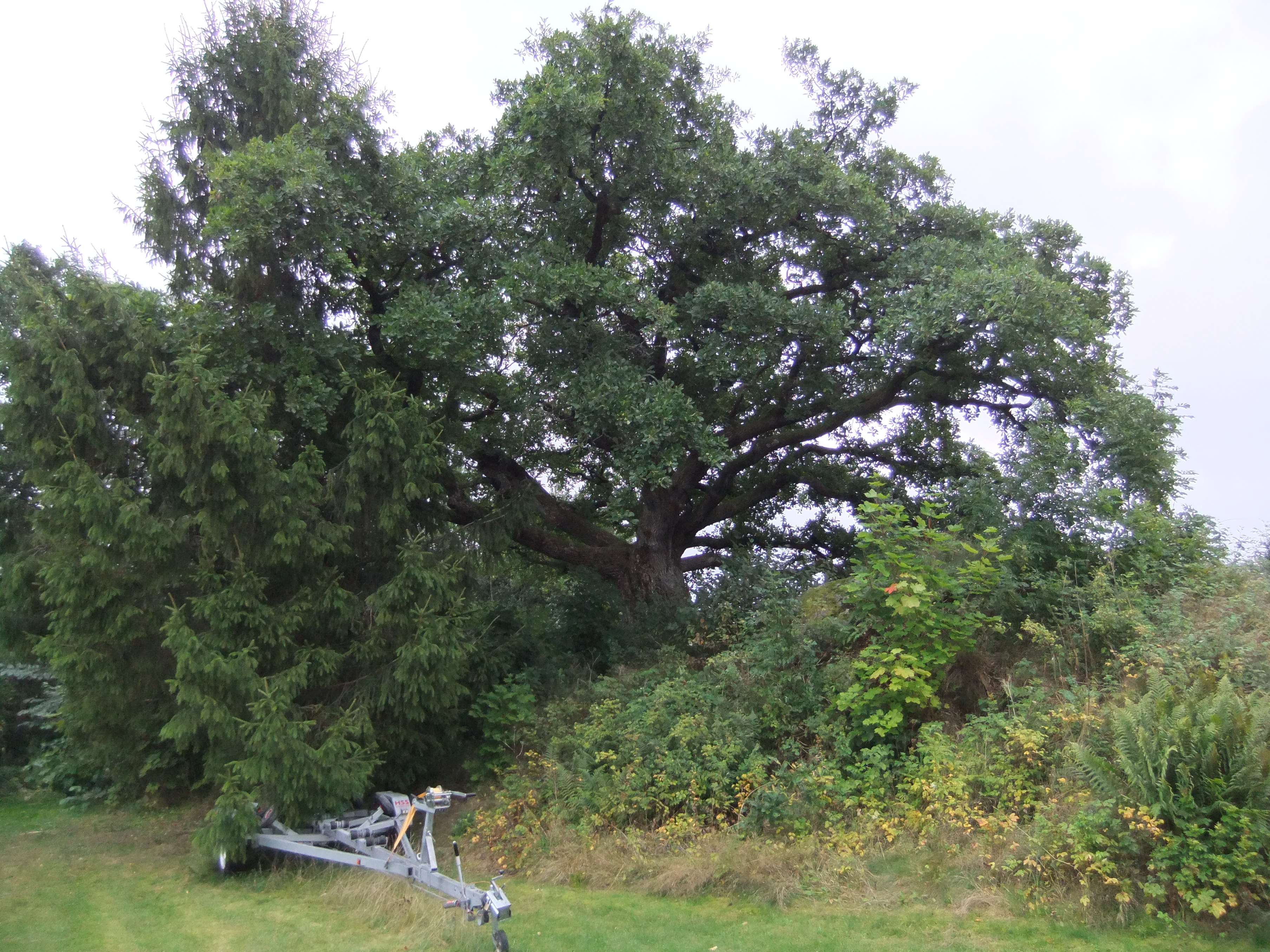 Natvig-oak, Arendal, Norway